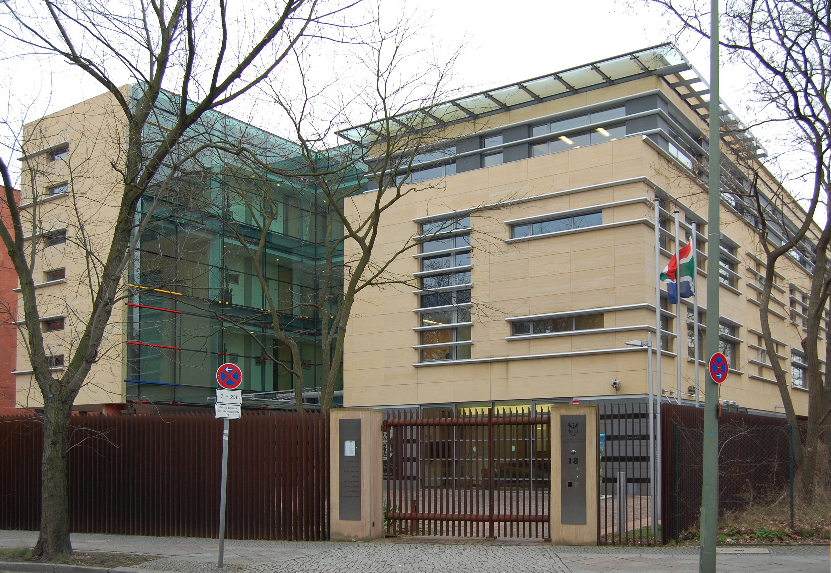 South African Embassy in Berlin